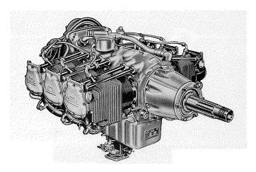 Aero engine Lycoming GO-435-C2